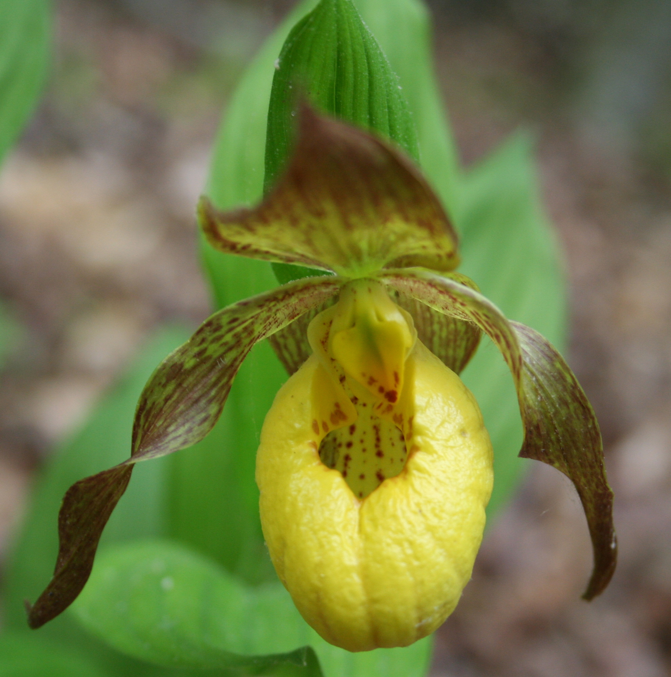 Detail of a flower of Cypripedium parviflorum growing on a calcareous slope in Williamsburg Virginia